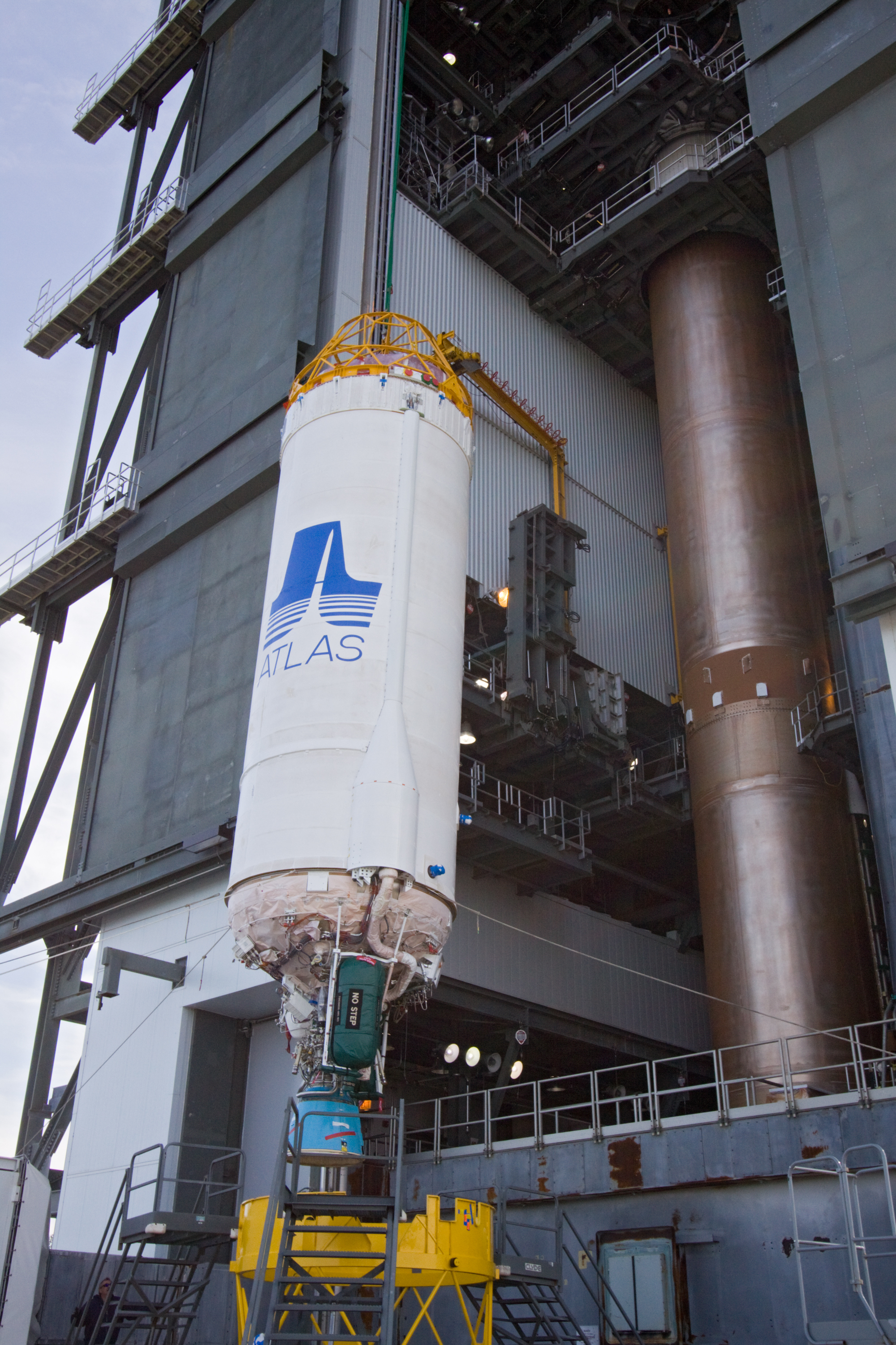 CAPE CANAVERAL, Fla. – At Launch Complex 41 on Cape Canaveral Air Force Station in Florida, the Centaur upper stage for the Atlas V rocket scheduled to launch NASA's Solar Dynamics Observatory, or SDO, is lifted into the Vertical Integration Facility where it will be installed on the first stage of the Atlas V, in the background. SDO is the first space weather research network mission in NASA's Living With a Star Program. The spacecraft's long-term measurements will give solar scientists in-depth information about changes in the sun's magnetic field and insight into how they affect Earth. Liftoff on the United Launch Alliance Atlas V is scheduled for 10:53 a.m. EST on Feb. 3, 2010. For information on SDO, visit